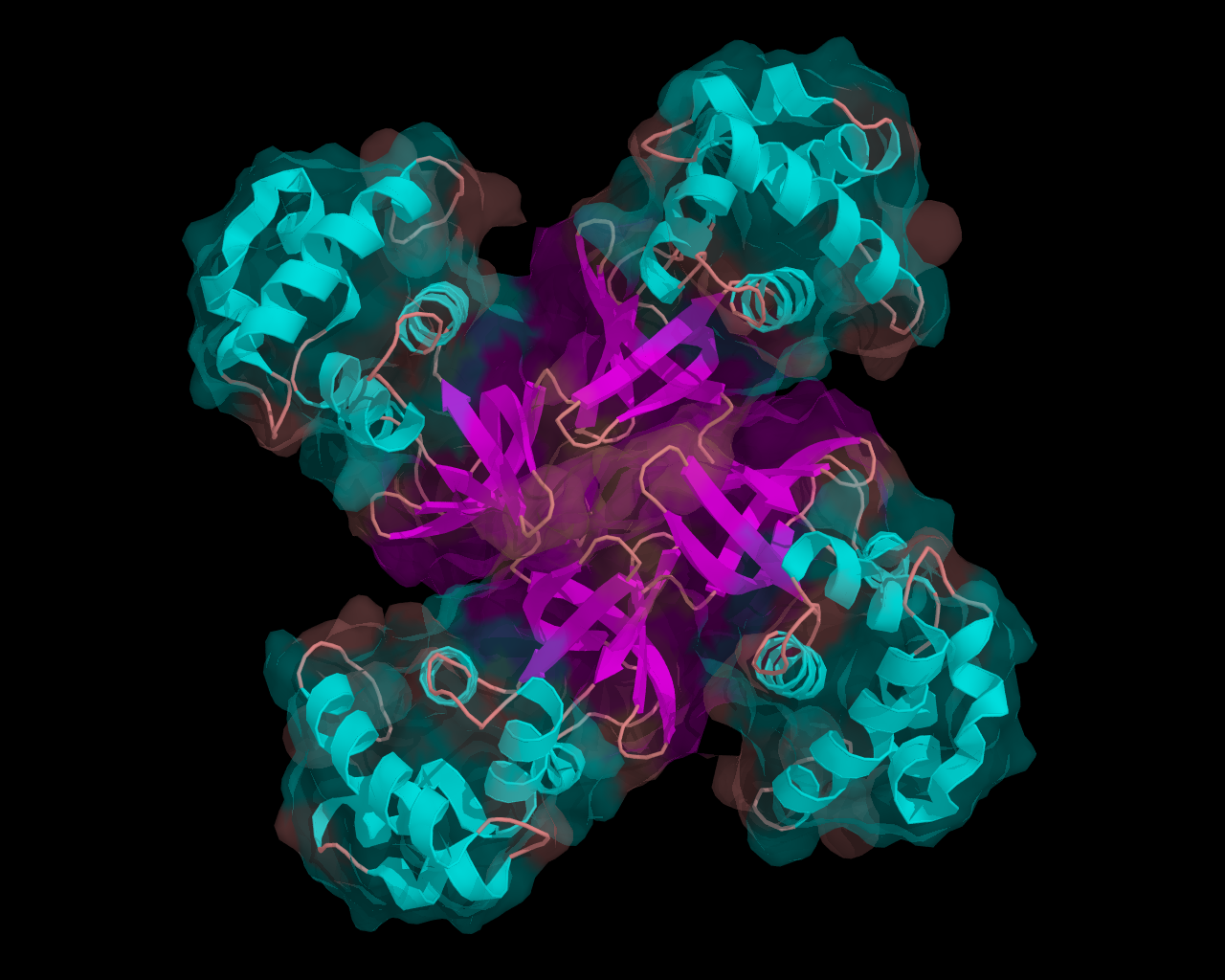 ESCHERICHIA COLI RUVA PROTEIN AT PH 4.9 AND ROOM TEMPERATURE - PDB entry: 1CUK